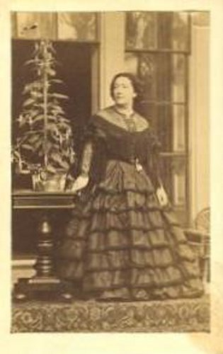 Giulia Grisi, also known as the Marchesa Giulia de Candia (May 22, 1811 in Milan, Italy – November 29, 1869 in Berlin, Germany) was an Italian opera singer.